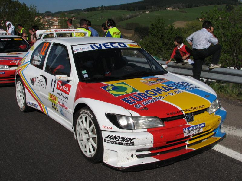 306 MAXI EVO 2